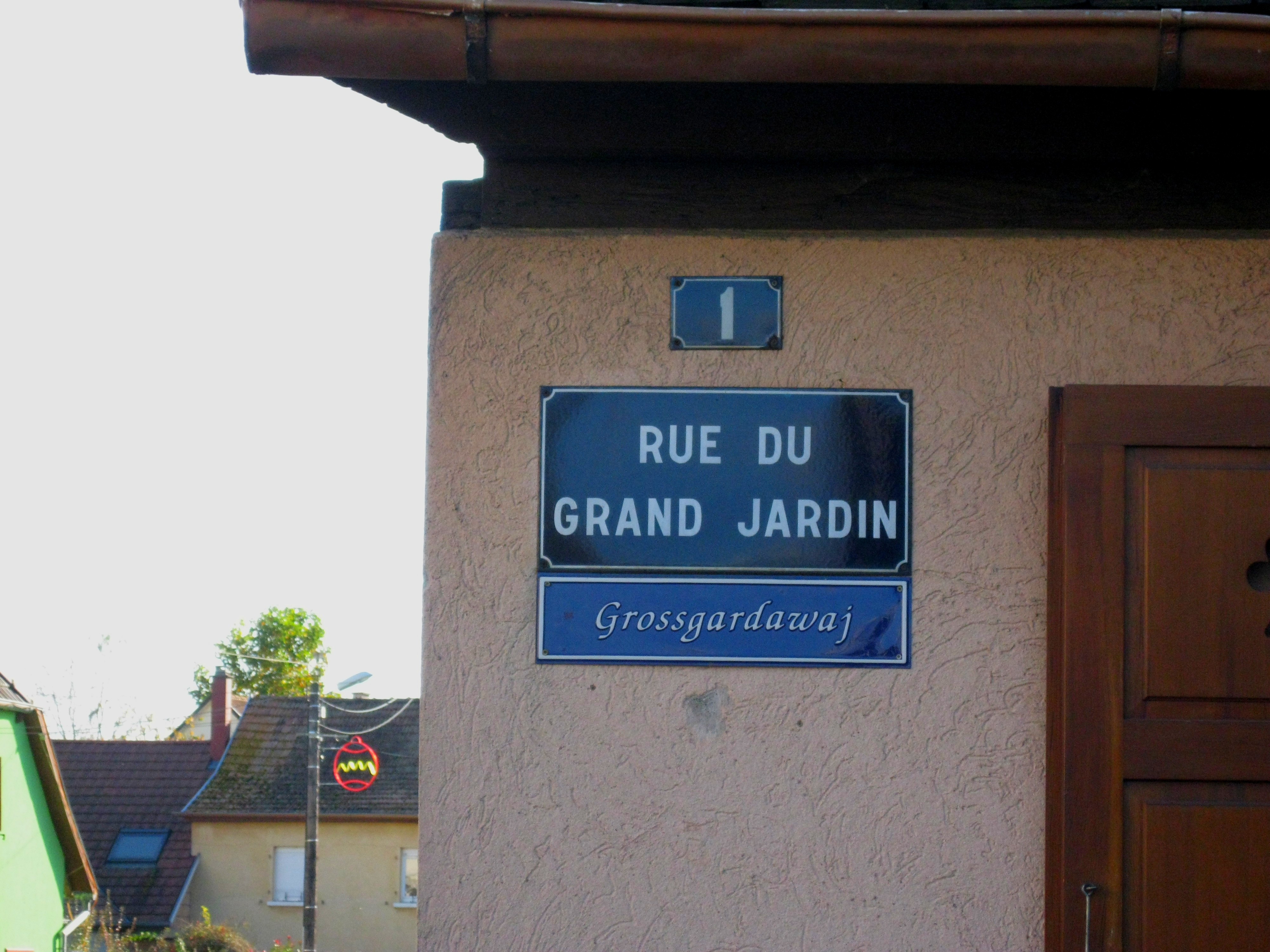 In Fortschwihr (Haut-Rhin, France), the sign indicating the rue du Grand Jardin, in French and in Alsatian.